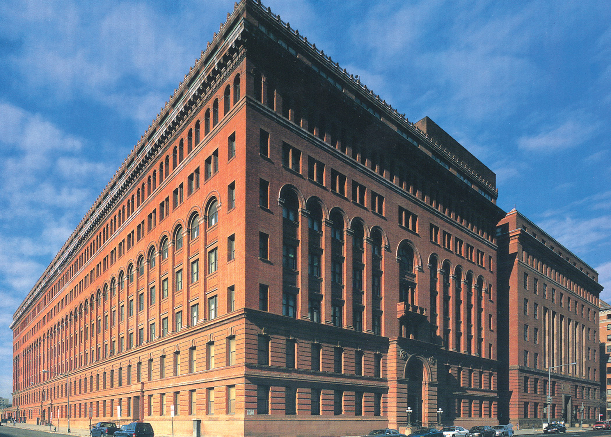 US Government Publishing Office headquarters building